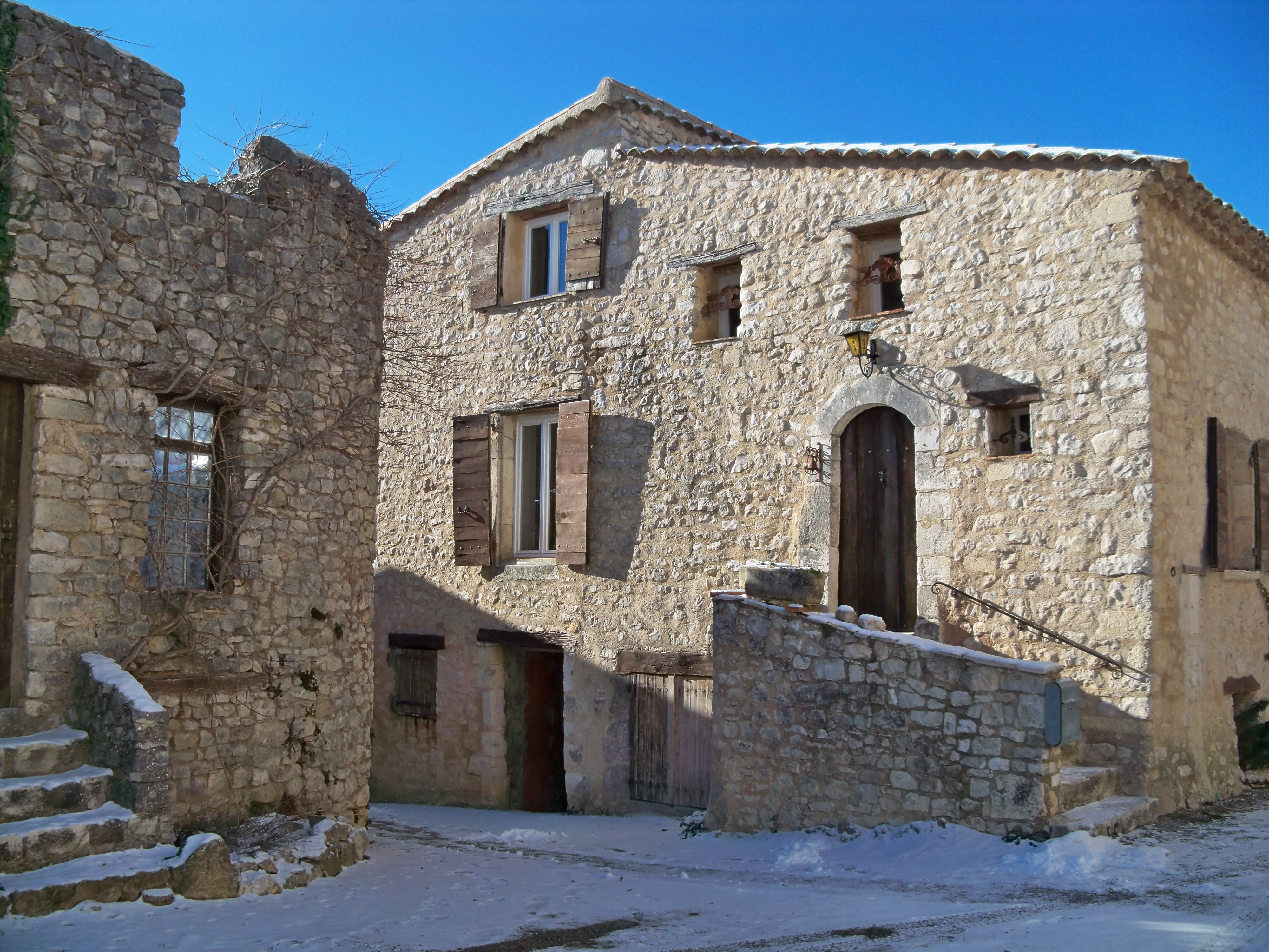 Maison en hauteur à Sain Trinit (Vaucluse)